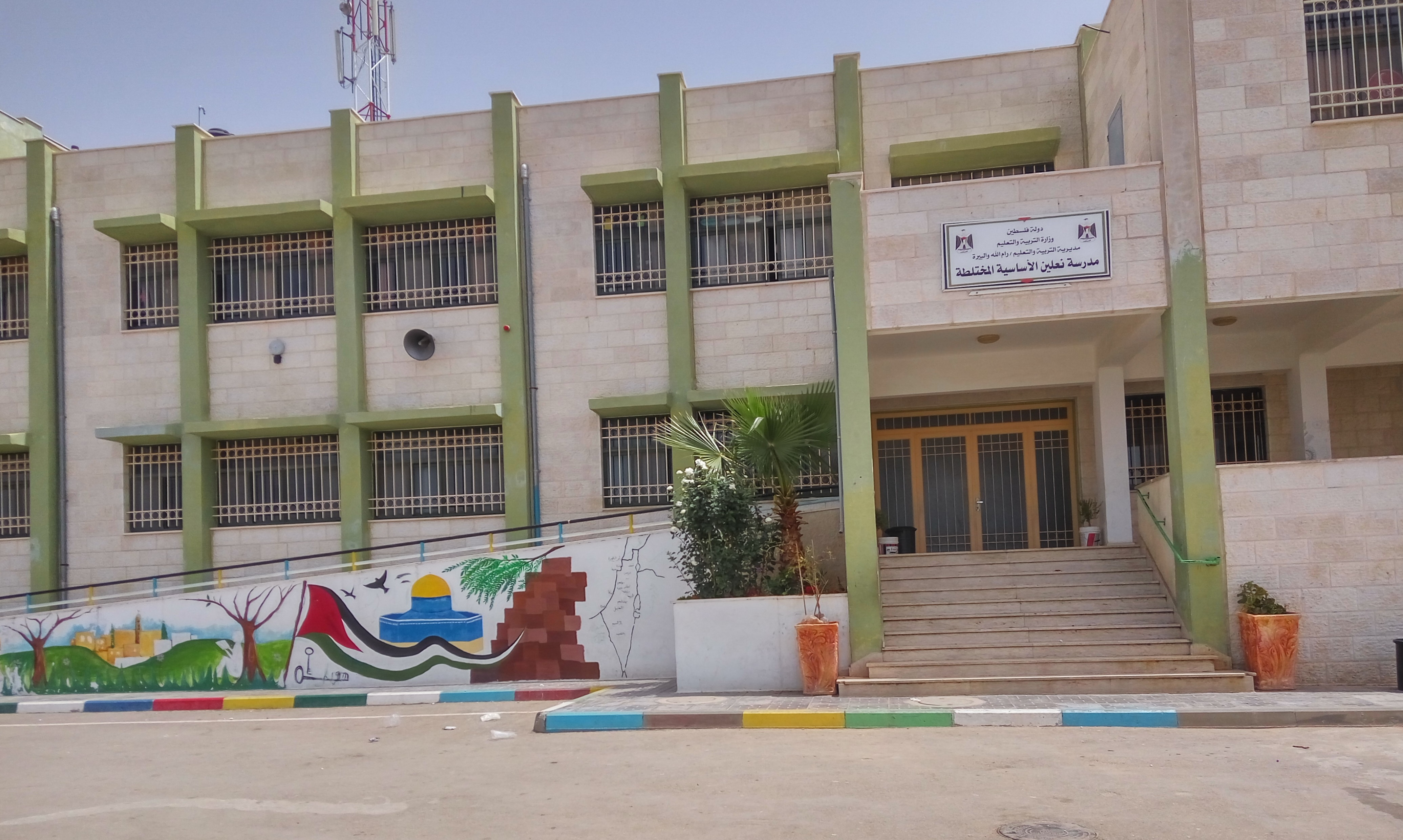 School in Ni'lin